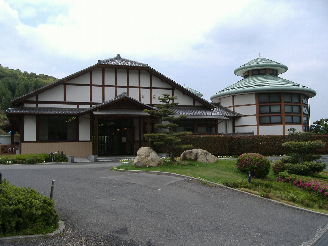 Tatara Onsen (Imabari, Japan)